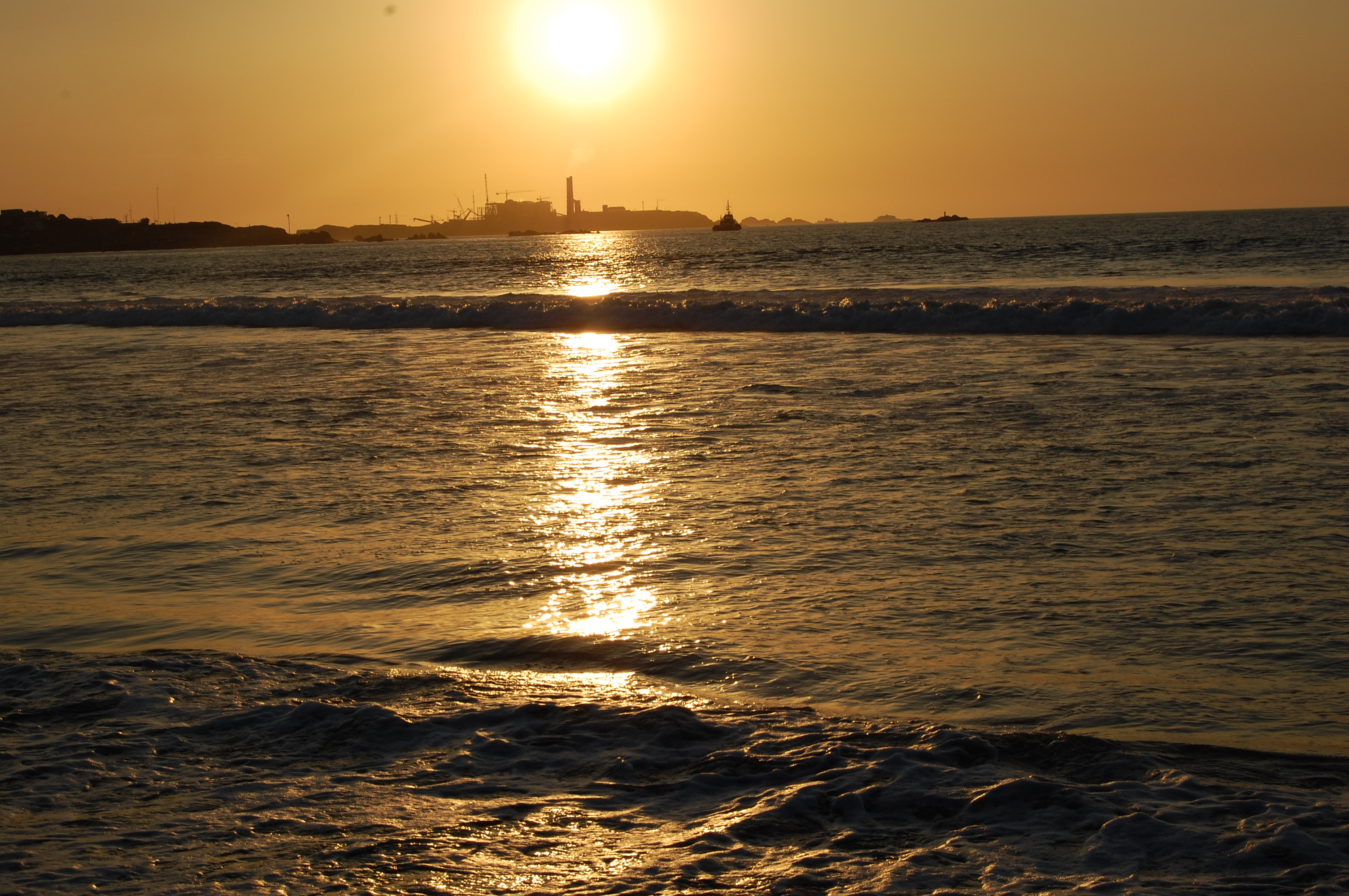 Sunset Huasco Termoelectric Central